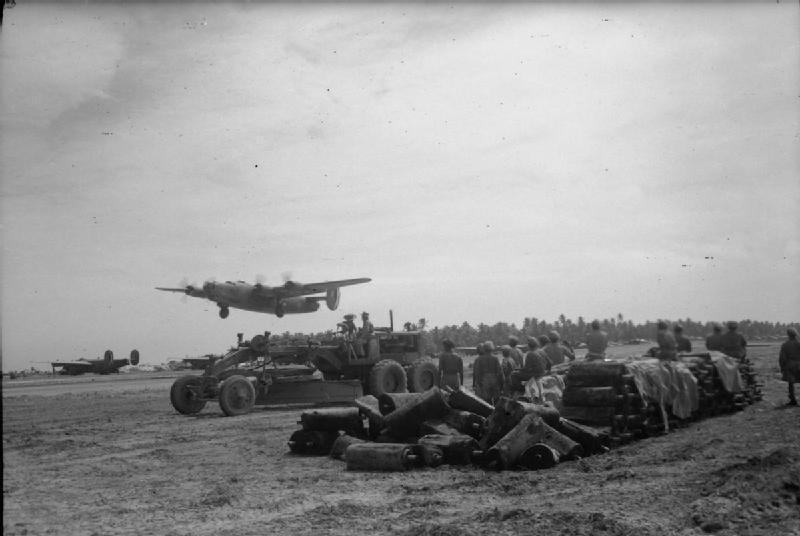 Royal Air Force Operations in the Far East, 1941-1945. Indian Army engineers pause in their work to complete the airfield at Brown's West Island as a Consolidated Liberator B Mark VI of No. 356 Squadron RAF takes off on the Squadron's first operational sortie, and first operation undertaken from the Cocos islands. Seven Liberators were despatched to bomb two Japanese-held airstrips near Benkoelen, Sumatra. The engineers are using a caterpillar grader to level the ground next to the runway, on which the bitumenised strips stacked in the foreground will eventually be laid.